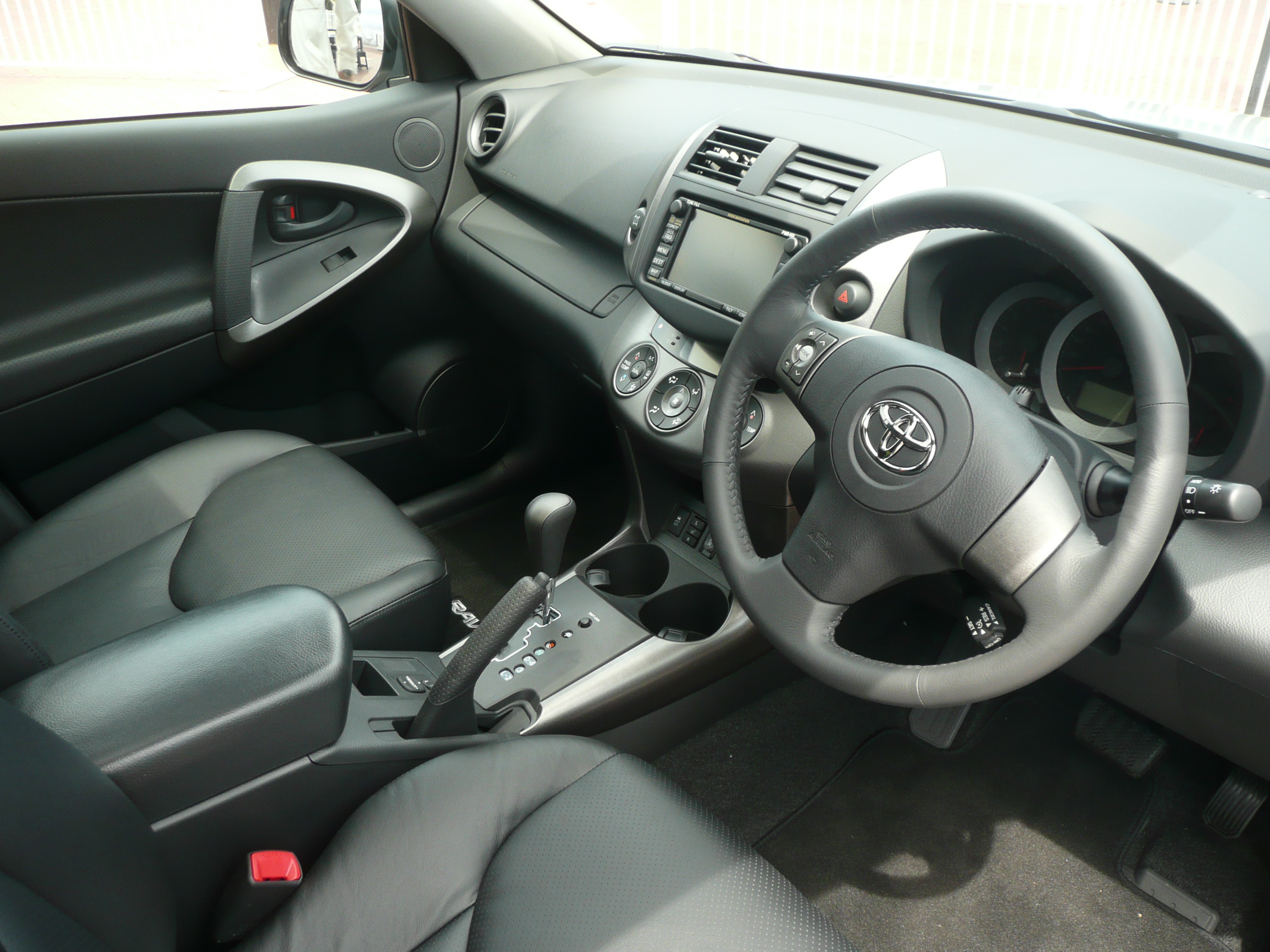 2008 Toyota RAV4 (GSA33R MY09) ZR6 wagon. Photographed at the 2008 Australian International Motor Show, Sydney, New South Wales, Australia.